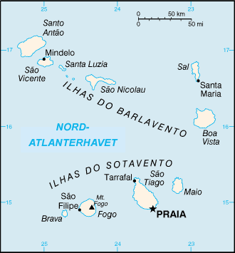 CIA map of Cape Verde with Norwegian caption.